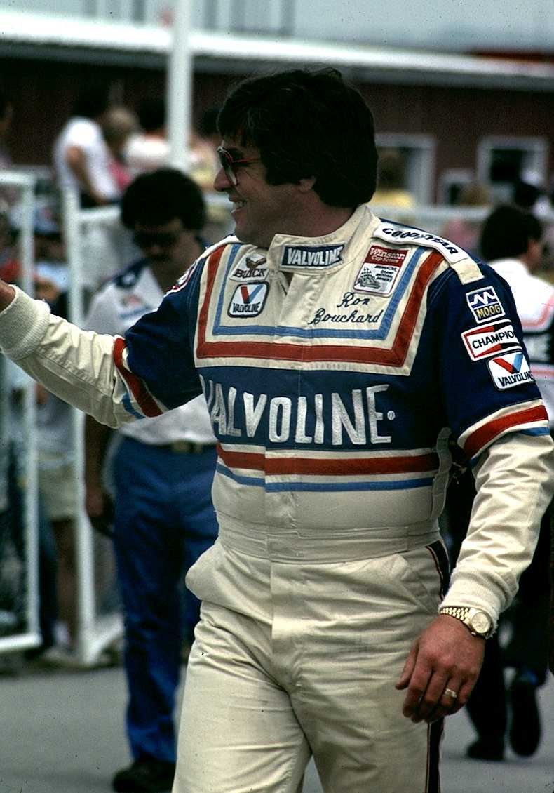 NASCAR driver Ron Bouchard in the 1980s. Photo by Ted Van Pelt